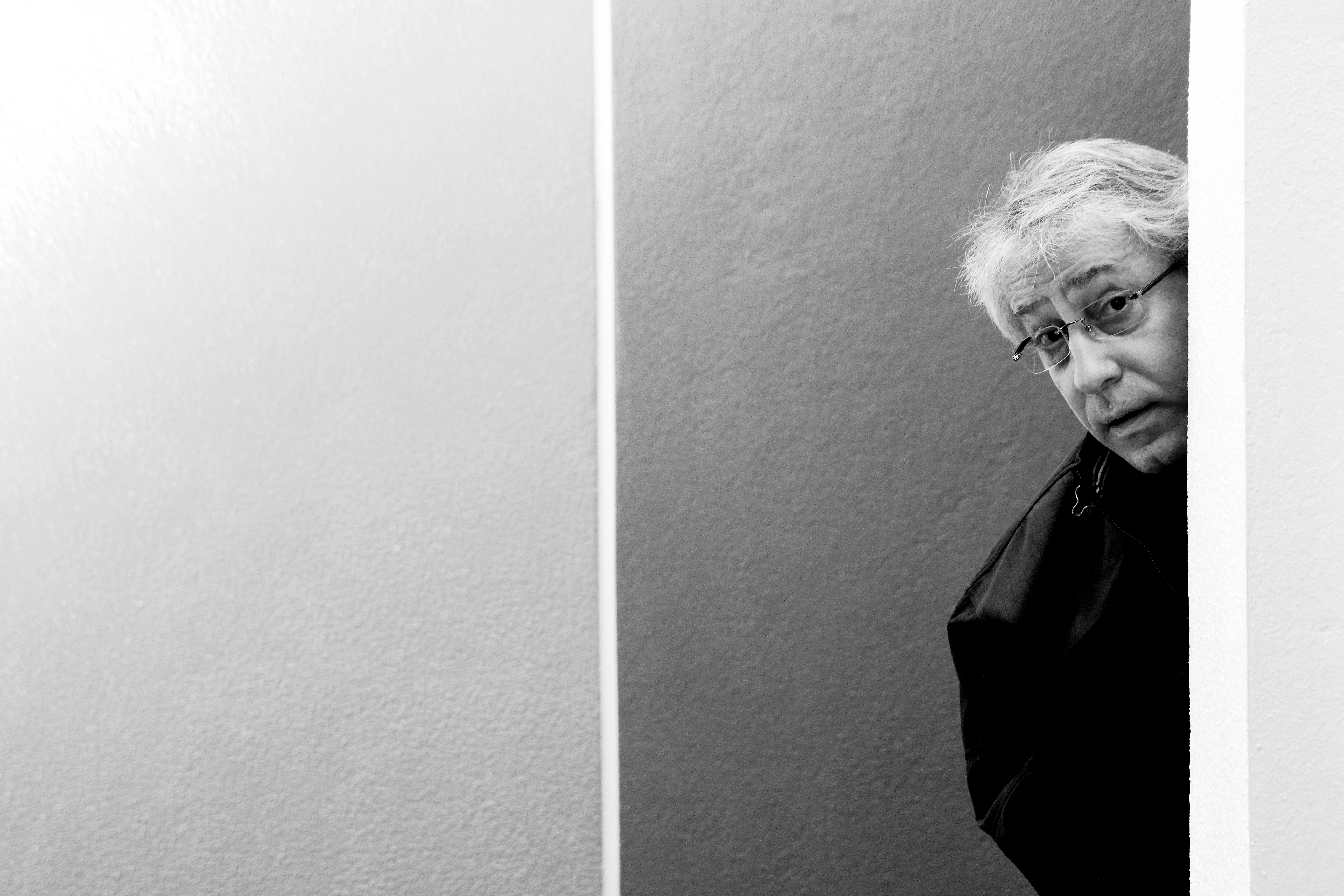 Artistic Director